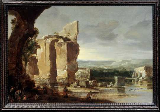 Oil painting on panel thought to be from 1630-1635 by Charles Cornelisz. de Hooch. Depicting Italian landscape with ruins and duck hunters.